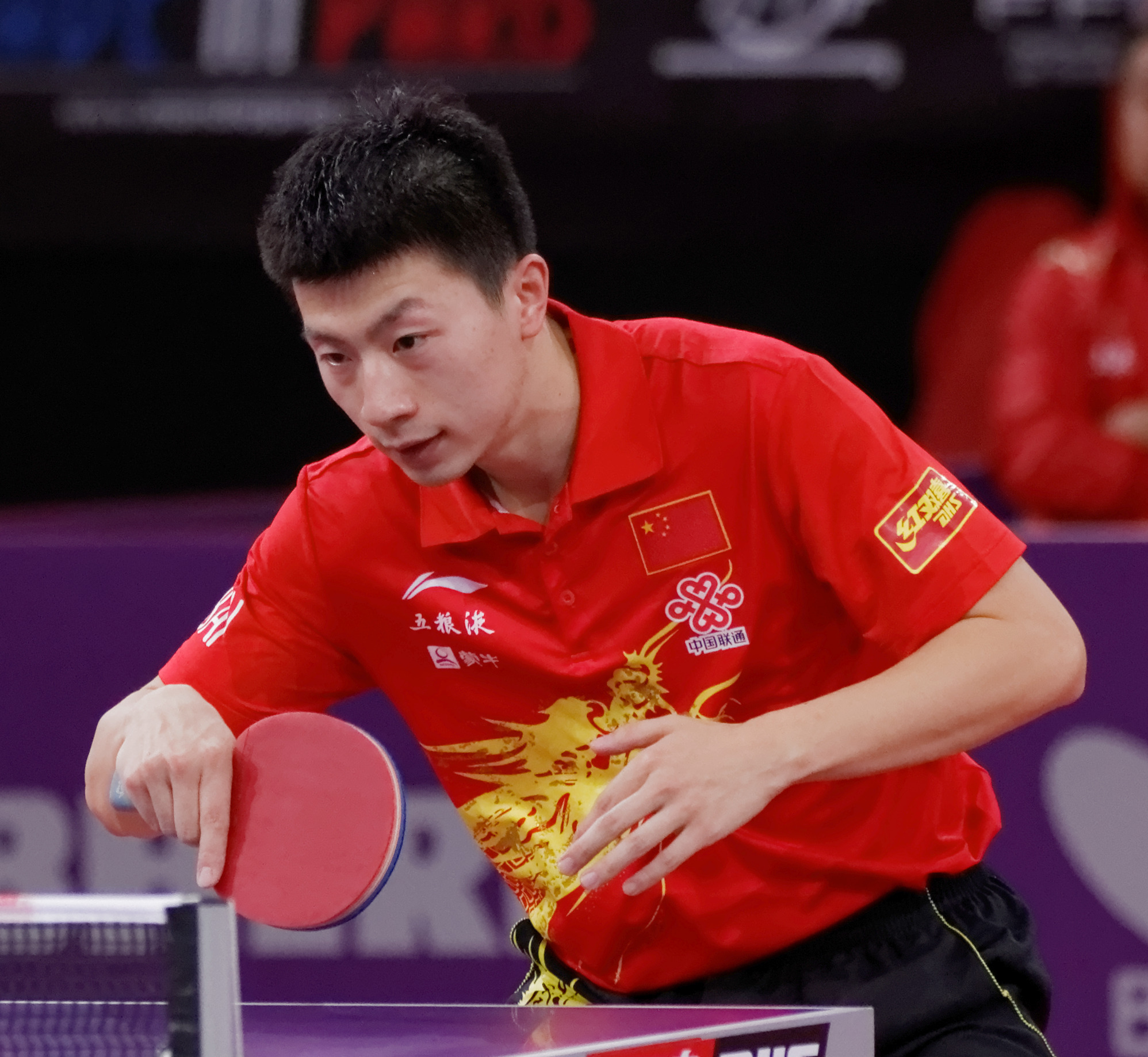 2013 World Table Tennis Championships, Paris. Men's Singles Round 4. Ma Long vs Koki Niwa.